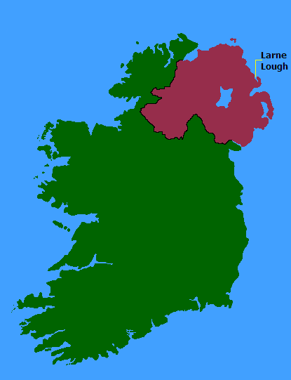 Location of Larne Lough.